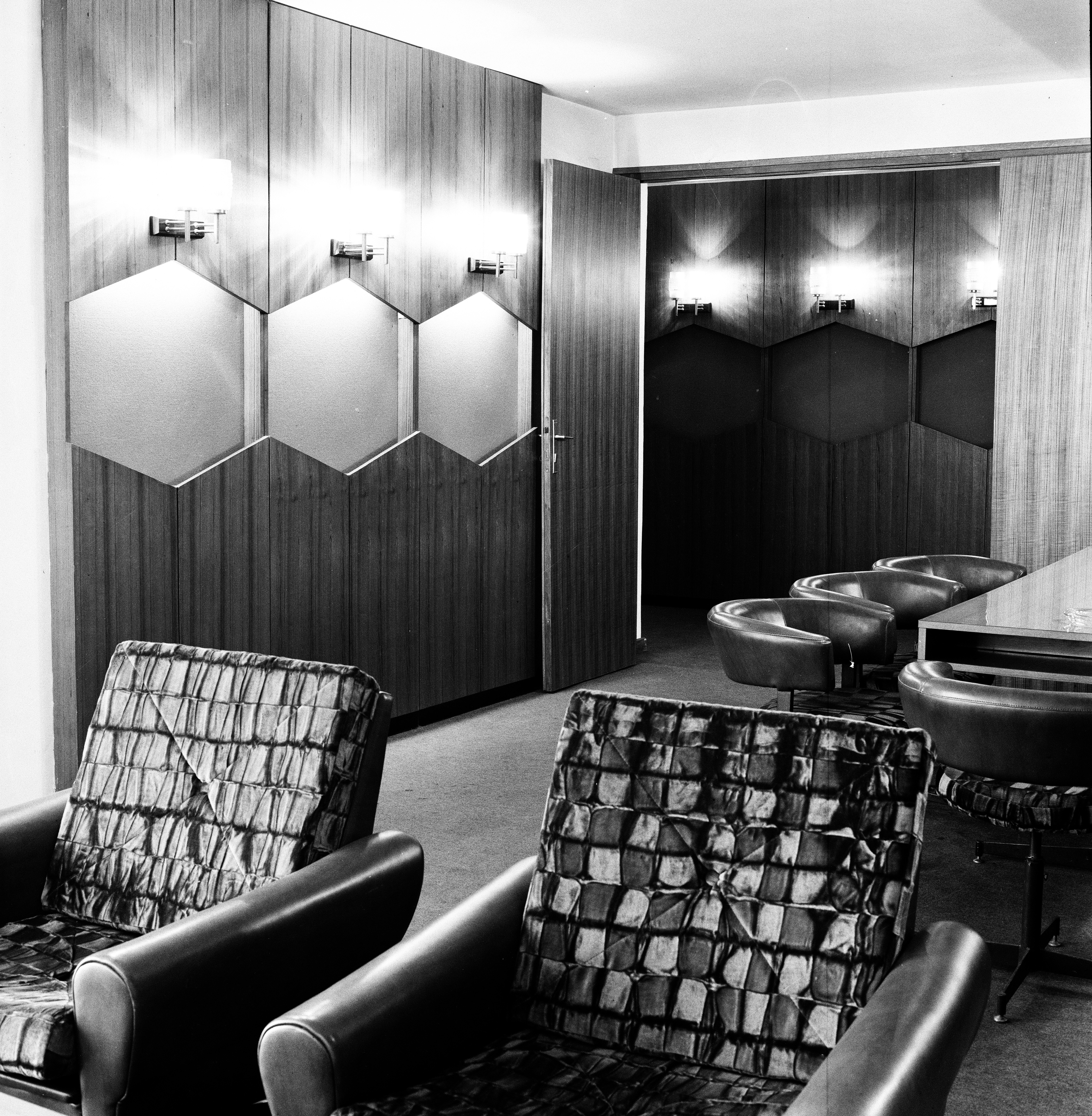 In 1967 Gojko Varda established cooperation with the Business Association of Agrohemija, Belgrade. The subject of the contract was the conceptual and main design of the business rooms of the association Agrohemija.